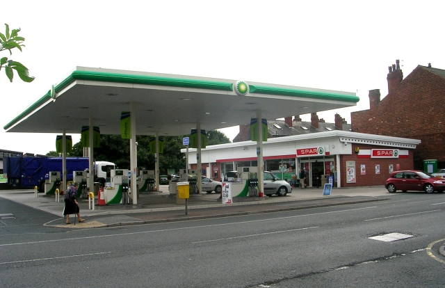 BP Filling Station - Dewsbury Road